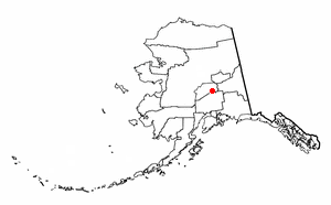 Adapted from Wikipedia's AK borough maps by Seth Ilys.